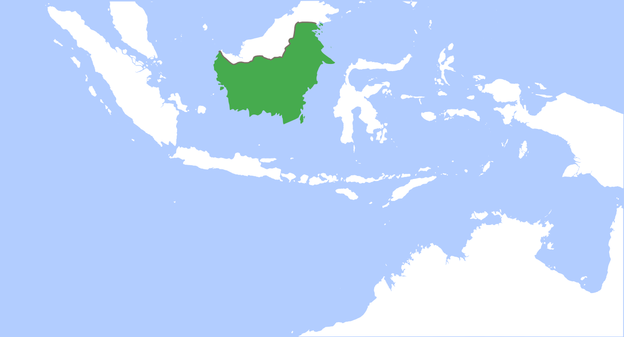 Locator map of the Province of Borneo, c. 1945.